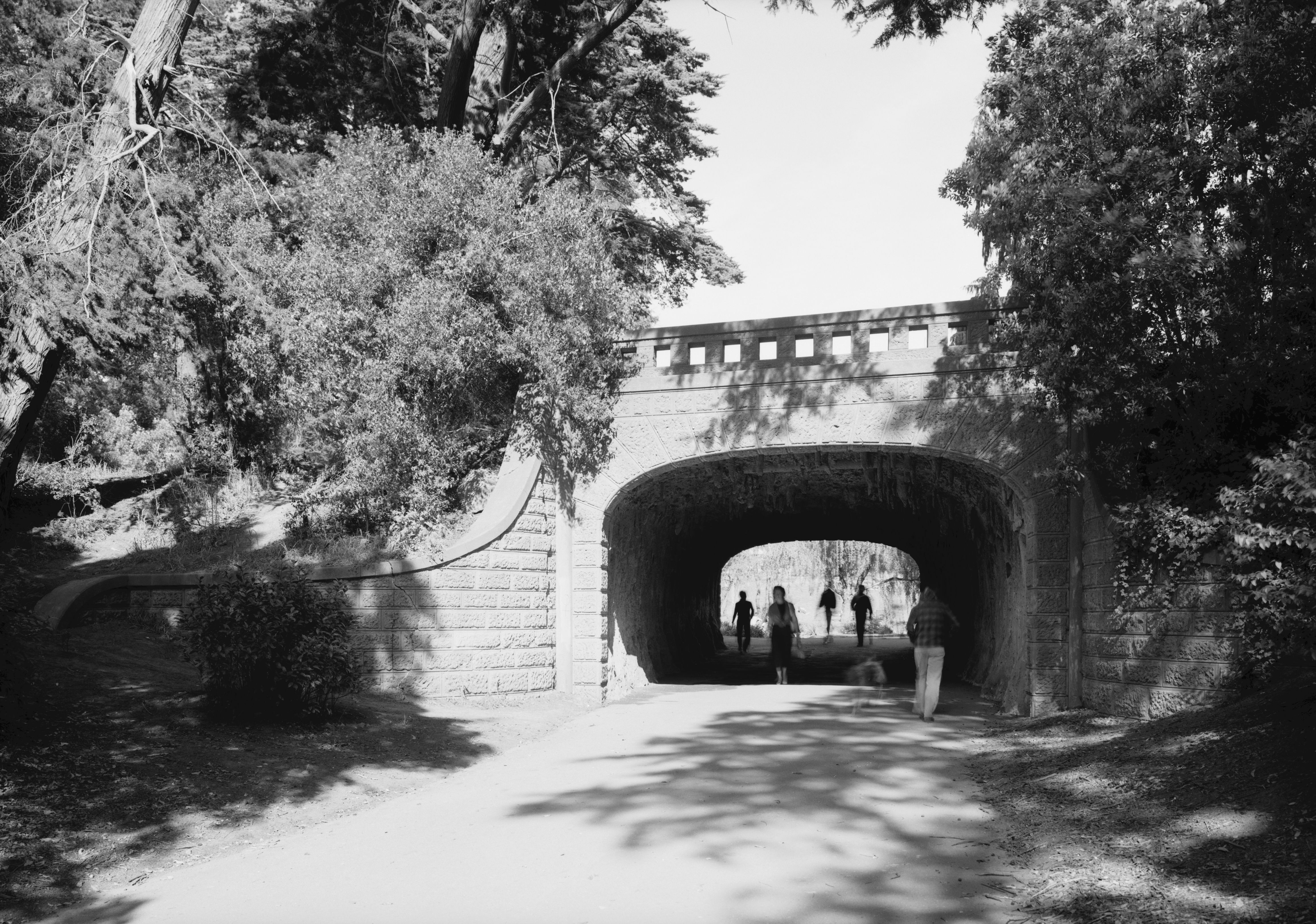 Alvord Lake Bridge — in San Francisco, California. This was the first reinforced concrete bridge in the United States. Looking east, in Golden Gate Park. A National Historic Civil Engineering Landmark. Historic American Engineering Record—HAER image.